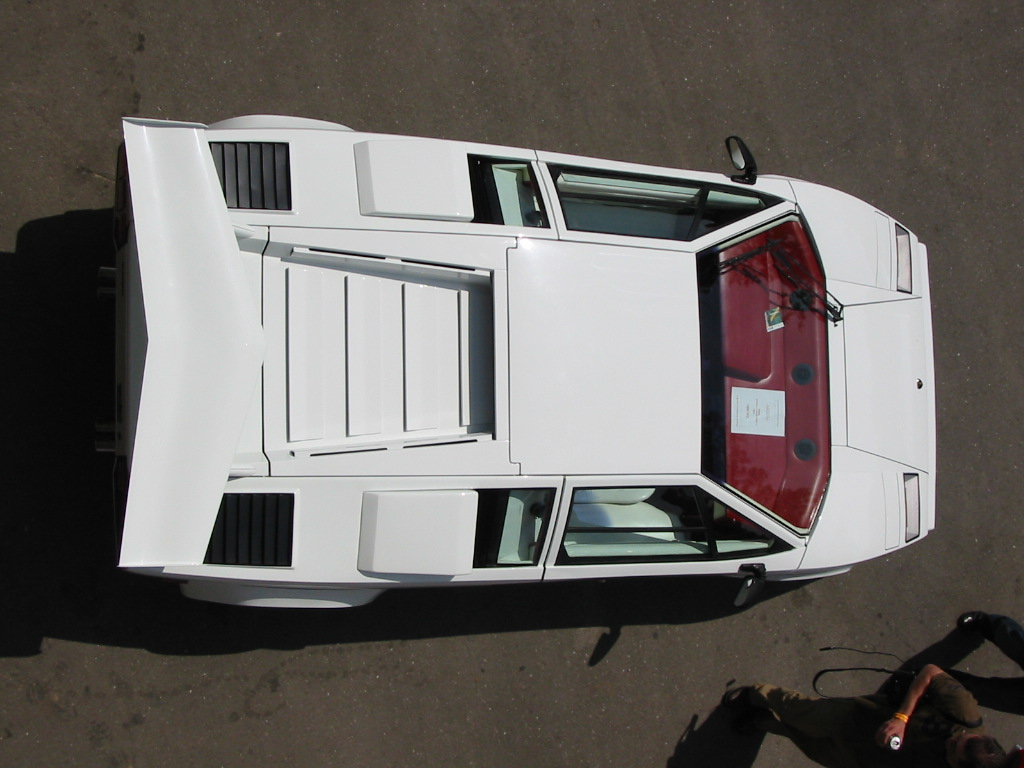 Lamborghini Countach from the top